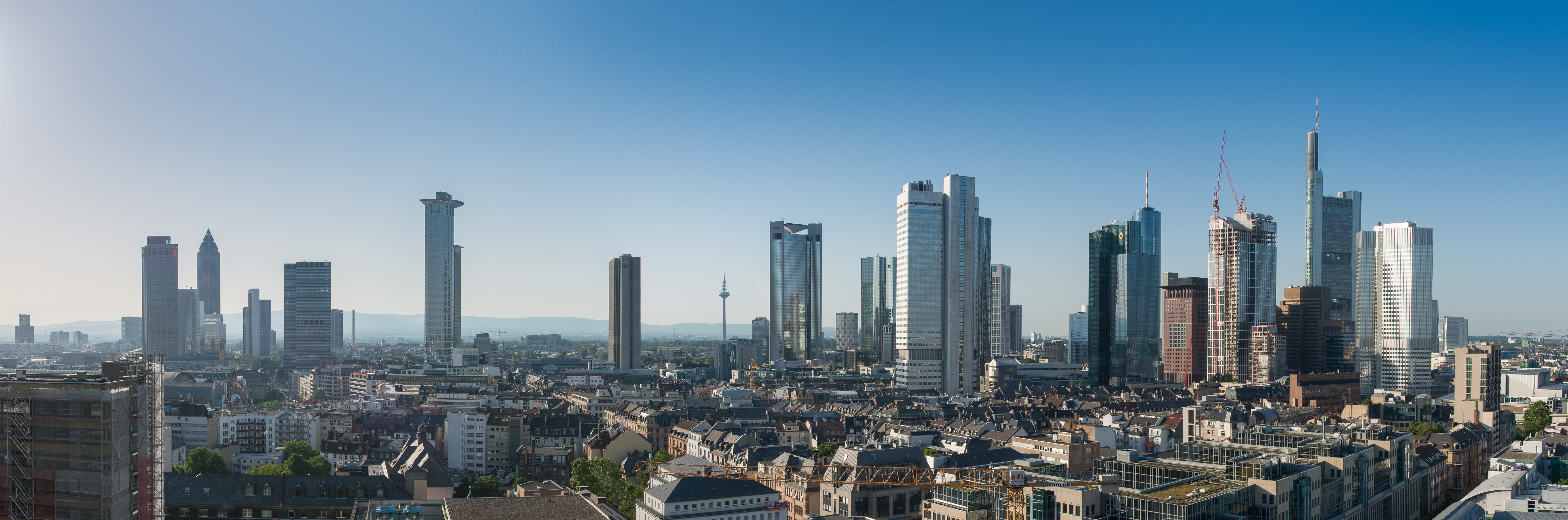 Frankfurt am Main, view from South-West over the skyline north of the Main river.